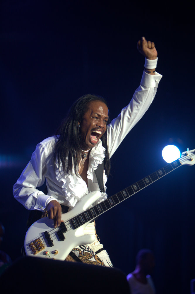 Verdine White in a performance with Earth, Wind, and Fire in 2010